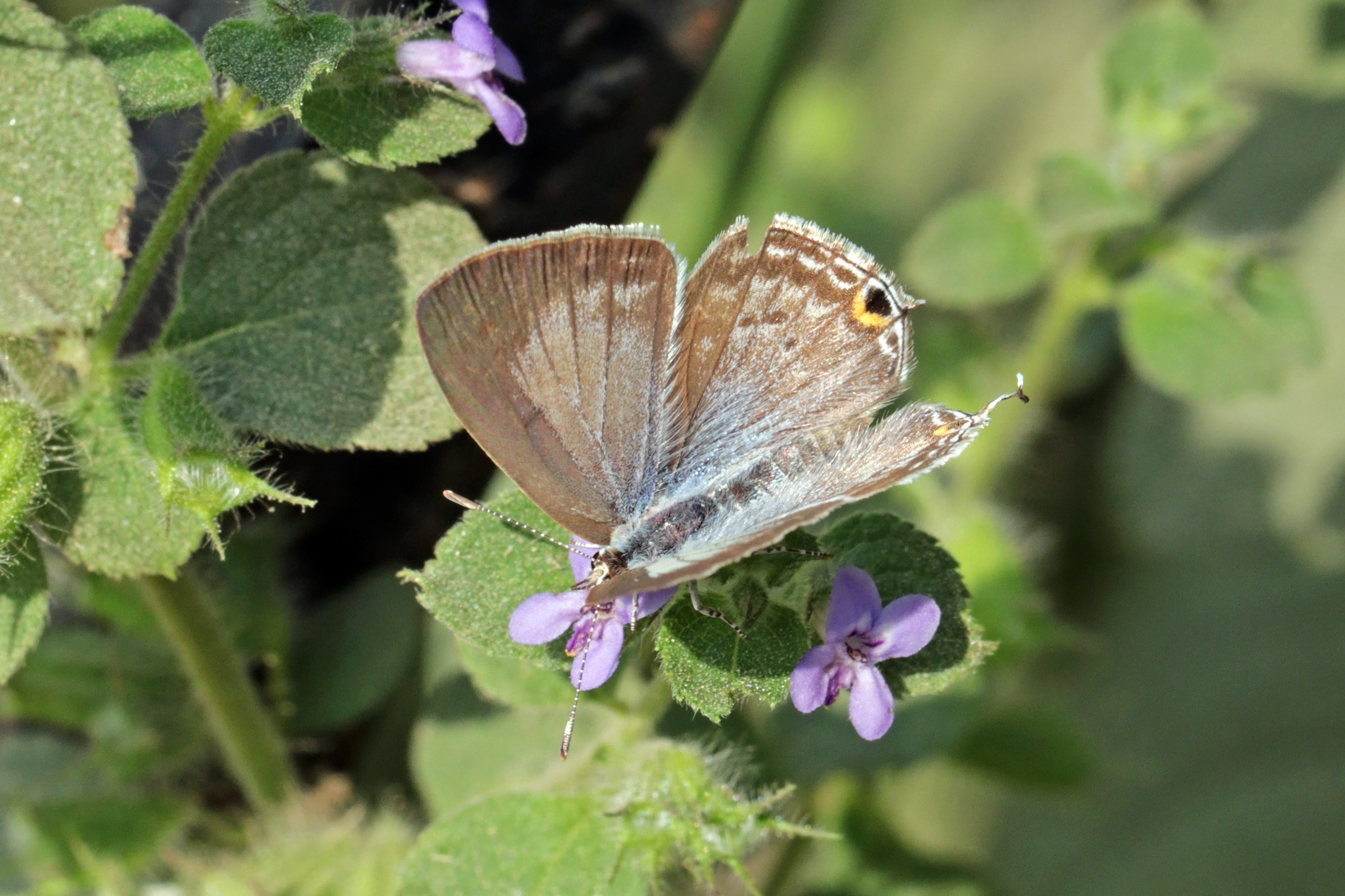 Forget-me-not (Catochrysops strabo) female, Nepalgunj, Nepal